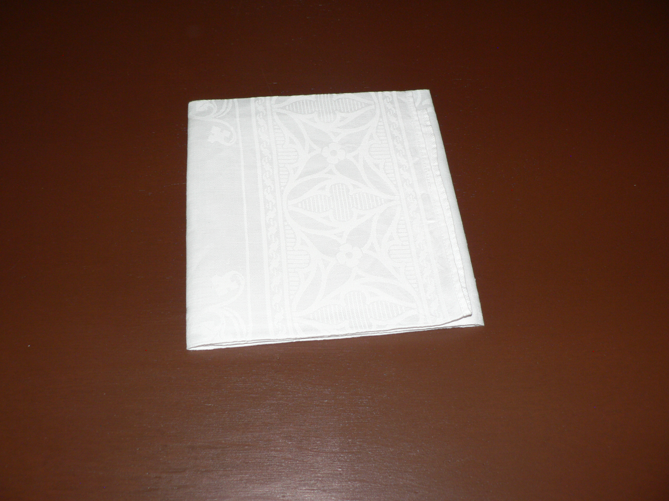 A corporal on a sacristy table, folded four times, i.e. completely.